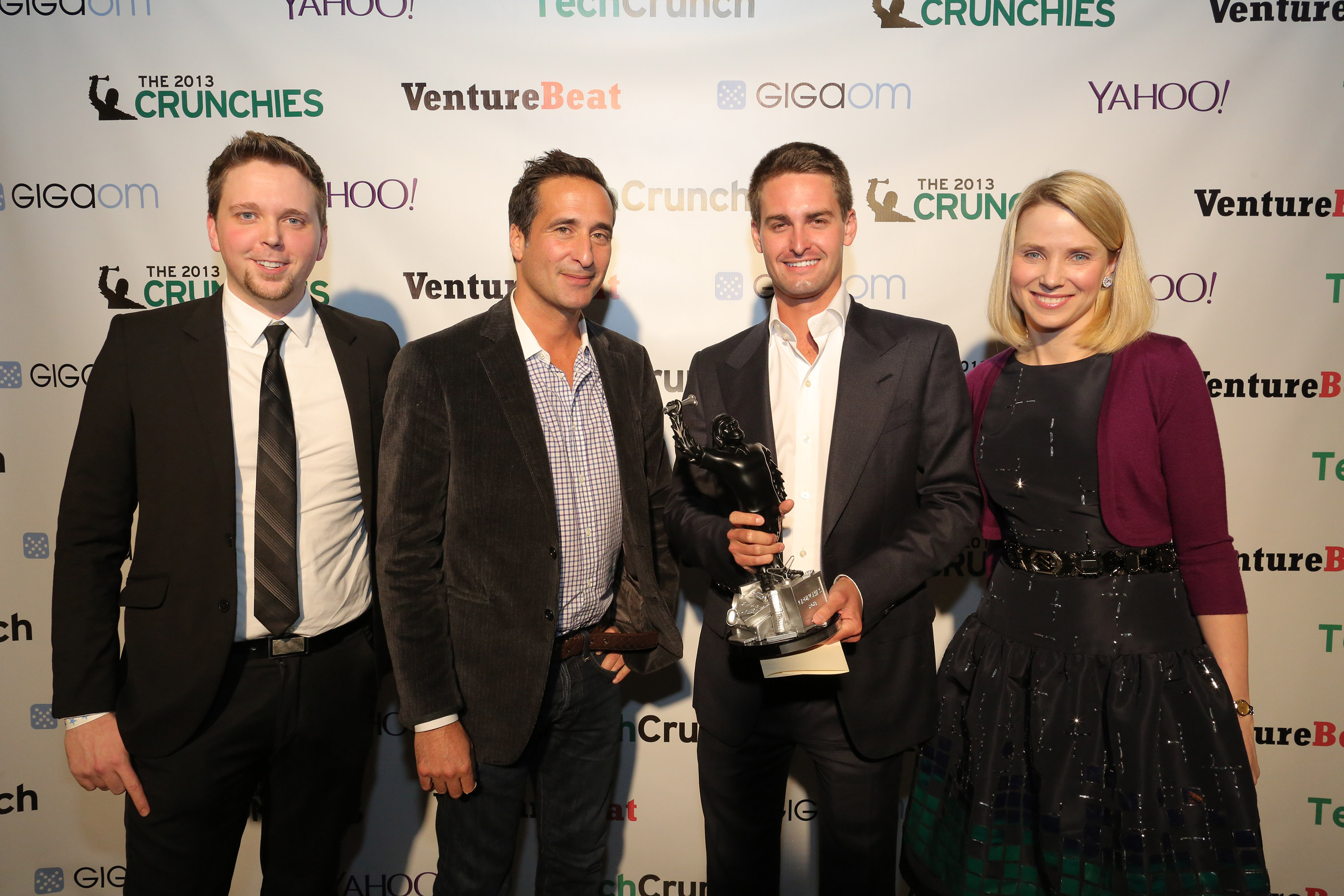 Backstage at the Crunchies 2013. Photo by Max Morse for TechCrunch.